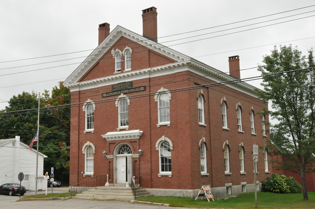 Limerick Upper Village Historic District, Limerick, Maine. The old town house.